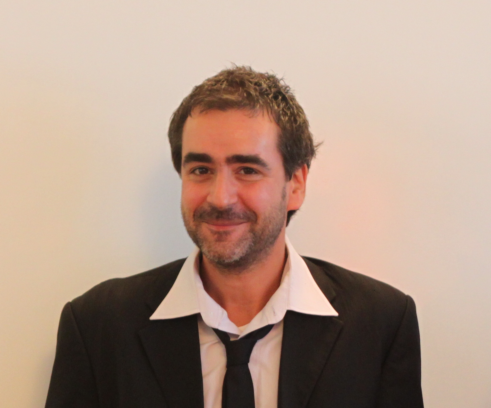 Deniz Yücel in Berlin, October 2011, while receiving the Kurt-Tucholsky-Preis